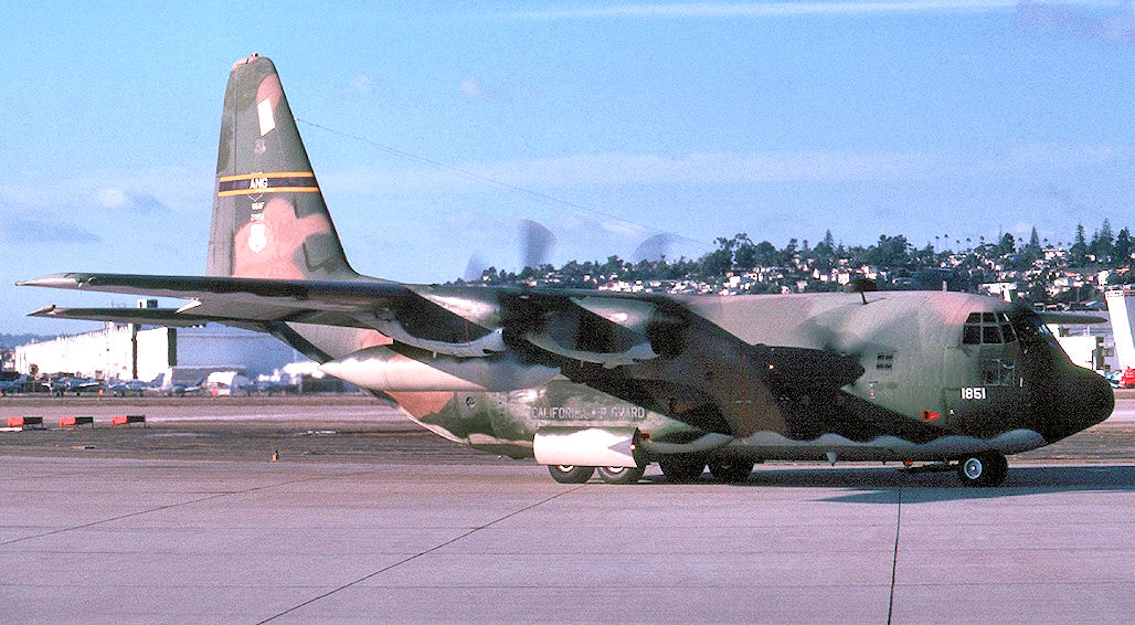 115th Tactical Airlift Squadron - Lockheed C-130E-LM Hercules 62-1851, about 1981. Aircraft still in service posessed by 146AW/115AS. To Pope AFB. Became permanent at Pope AFB in May 2005, then moved to Little Rock AFB.